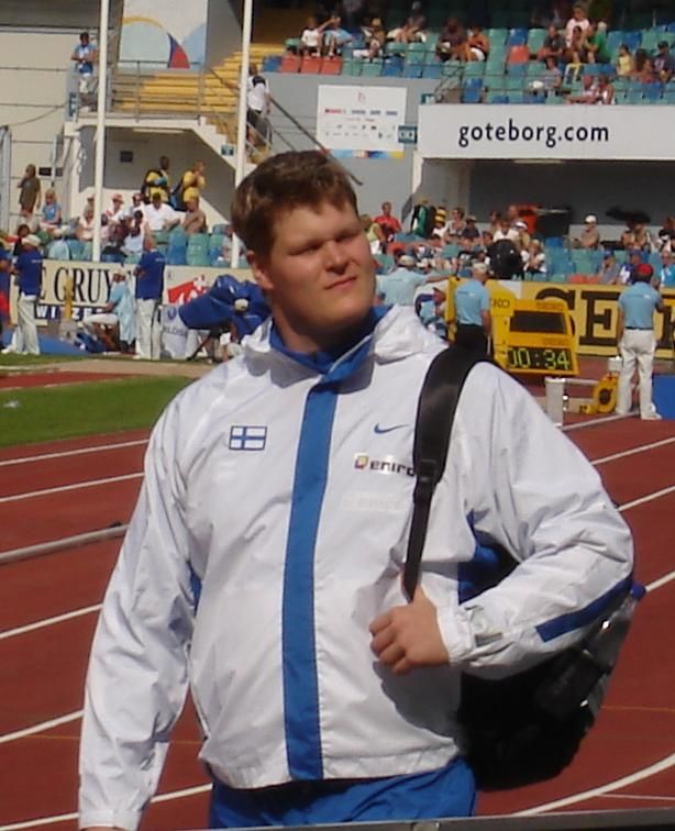 Olli-Pekka Karjalainen at the European championships in Gothenburg 2006 (silver medal 80,84)